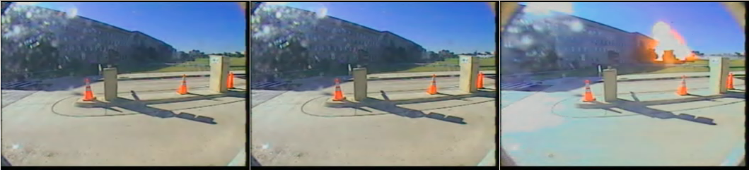 The three "hot" pictures of the video